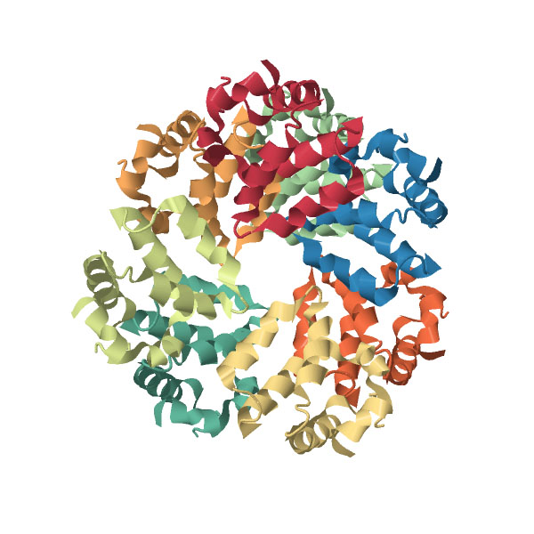 CARDs forming a ring complex through CARD-CARD interactions